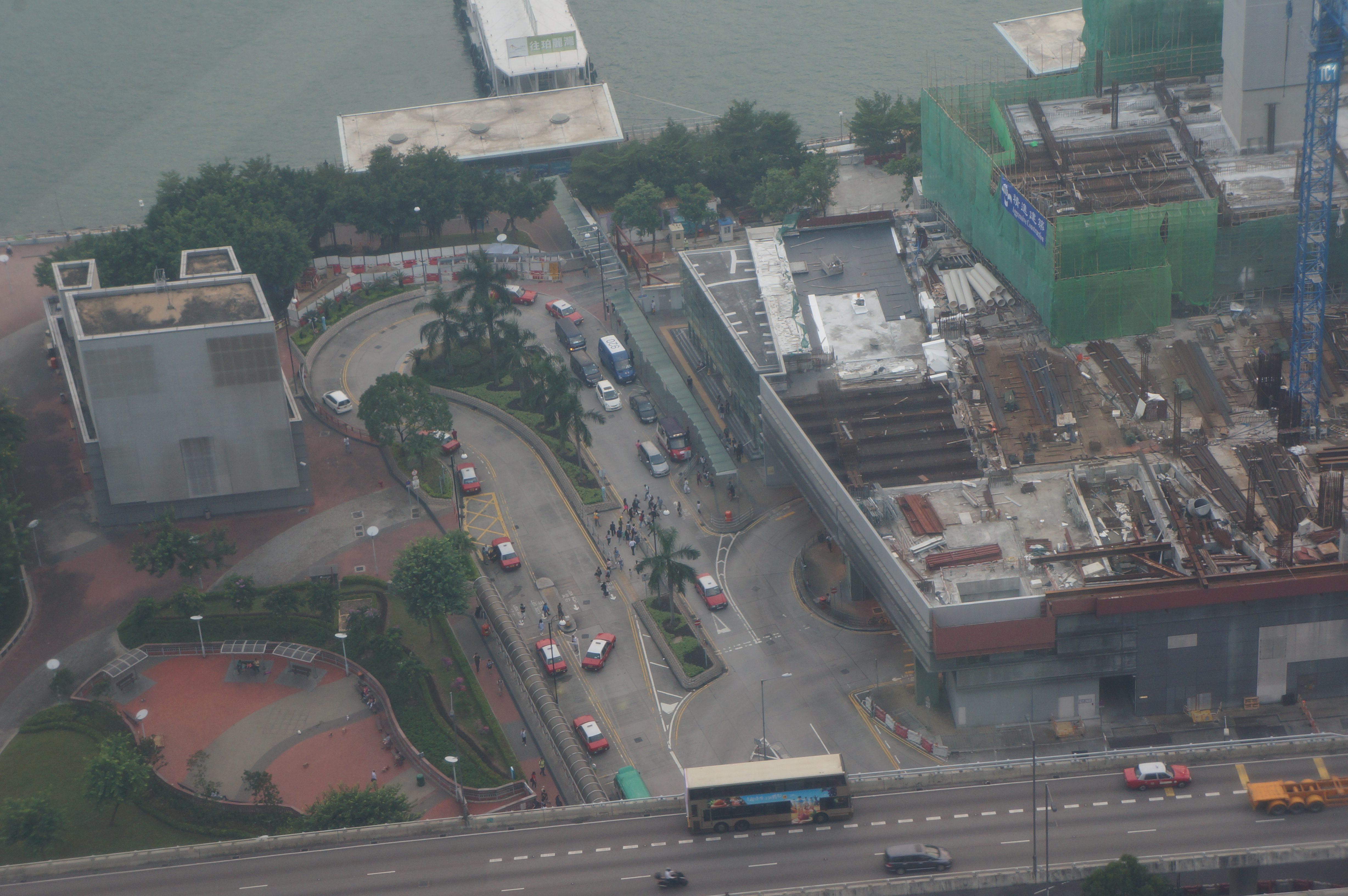 201609 Taxi Stands at Tsuen Wan West Station